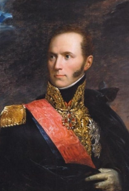 Posthumous portrait of Armand Augustin Louis de Caulaincourt, duc de Vicence (1773-1827)